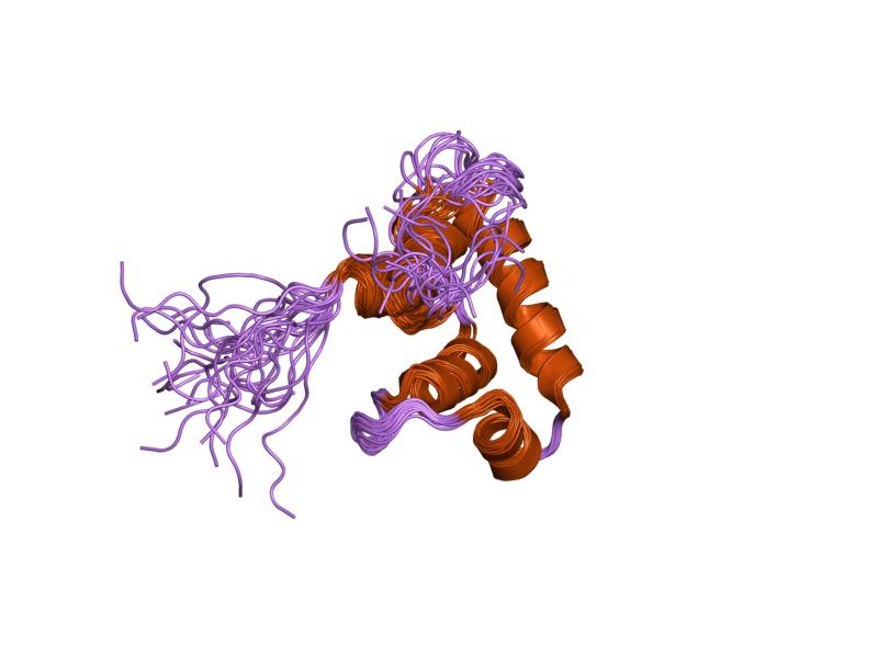 Cartoon representation of the molecular structure of protein registered with 1tty code.